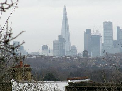 A close up view of of the Shard London Bridge, taken from a high point in Norwood Park, South East London, UK.